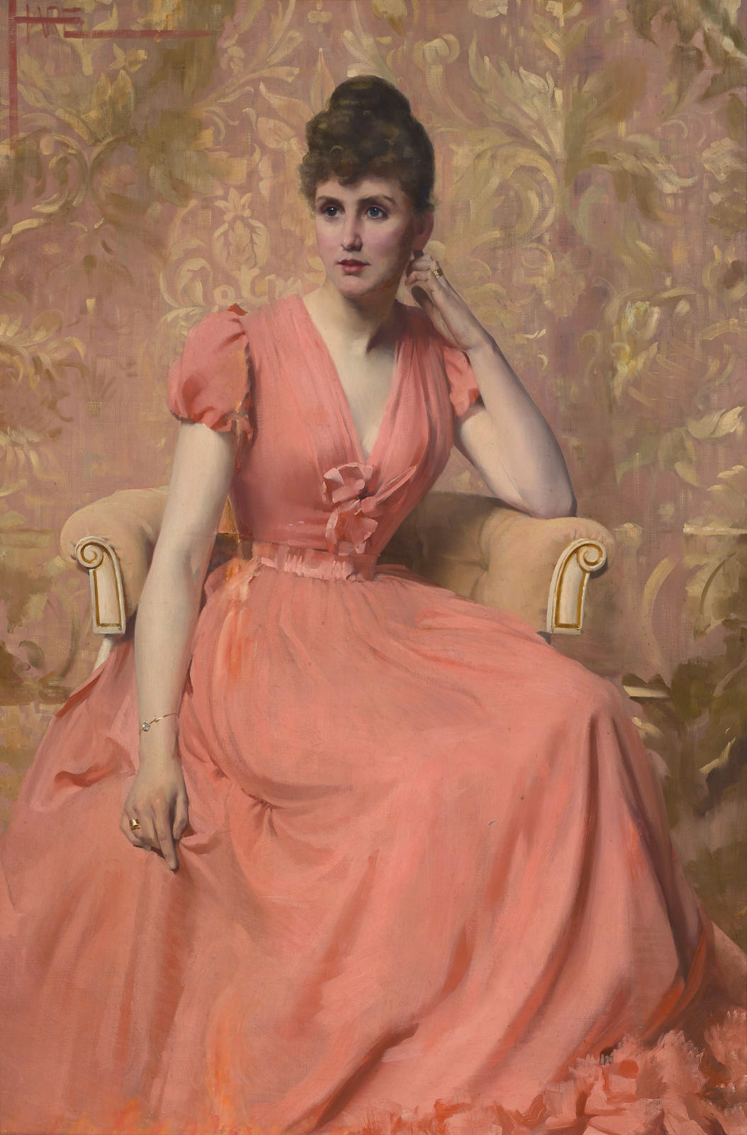 Portrait of a lady oil on canvas 152.5 x 101.8 cm signed t.l.: Hare